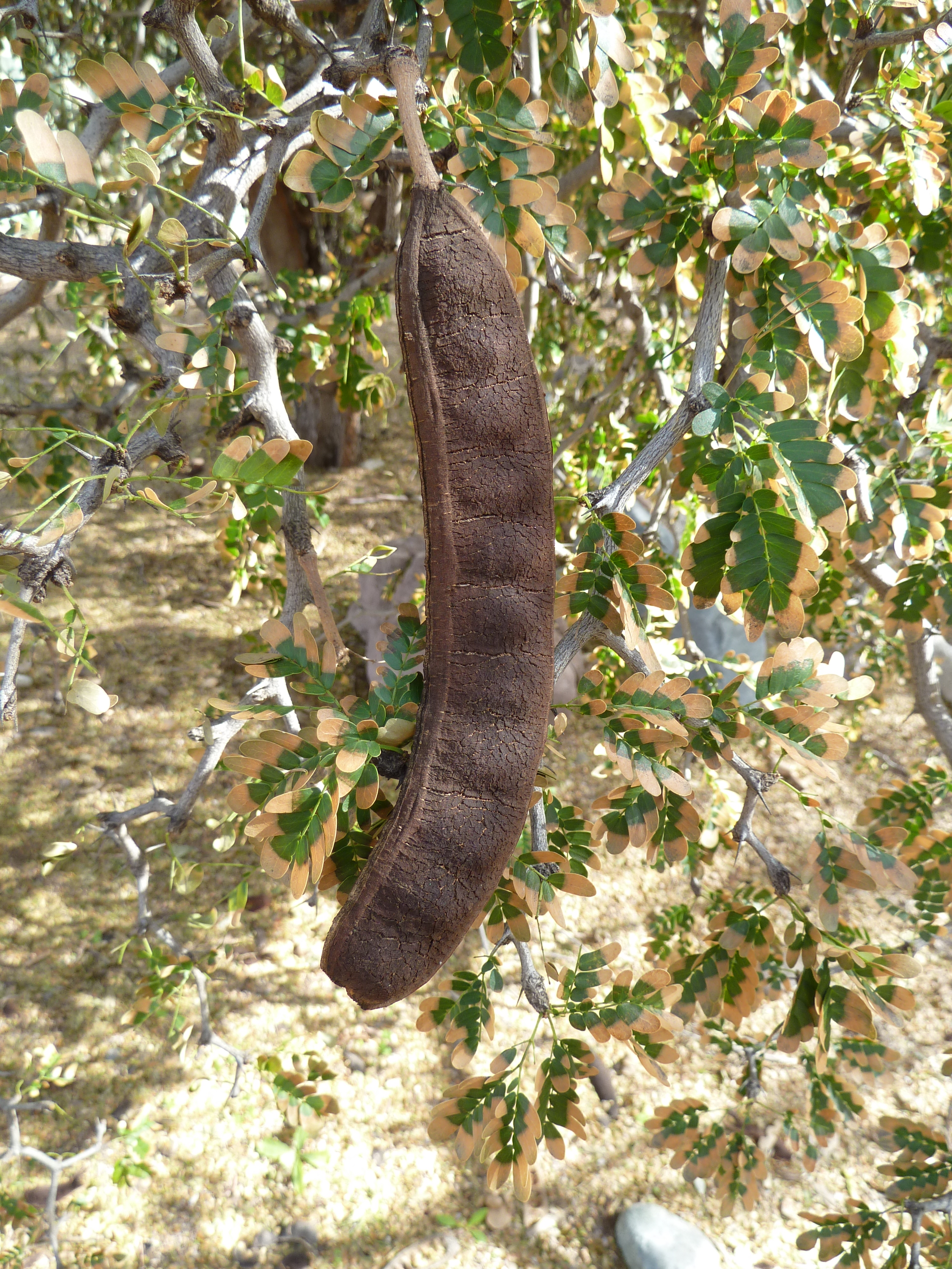 Ebenopsis ebano at Boyce Thompson Arboretum east of Phoenix, AZ, USA